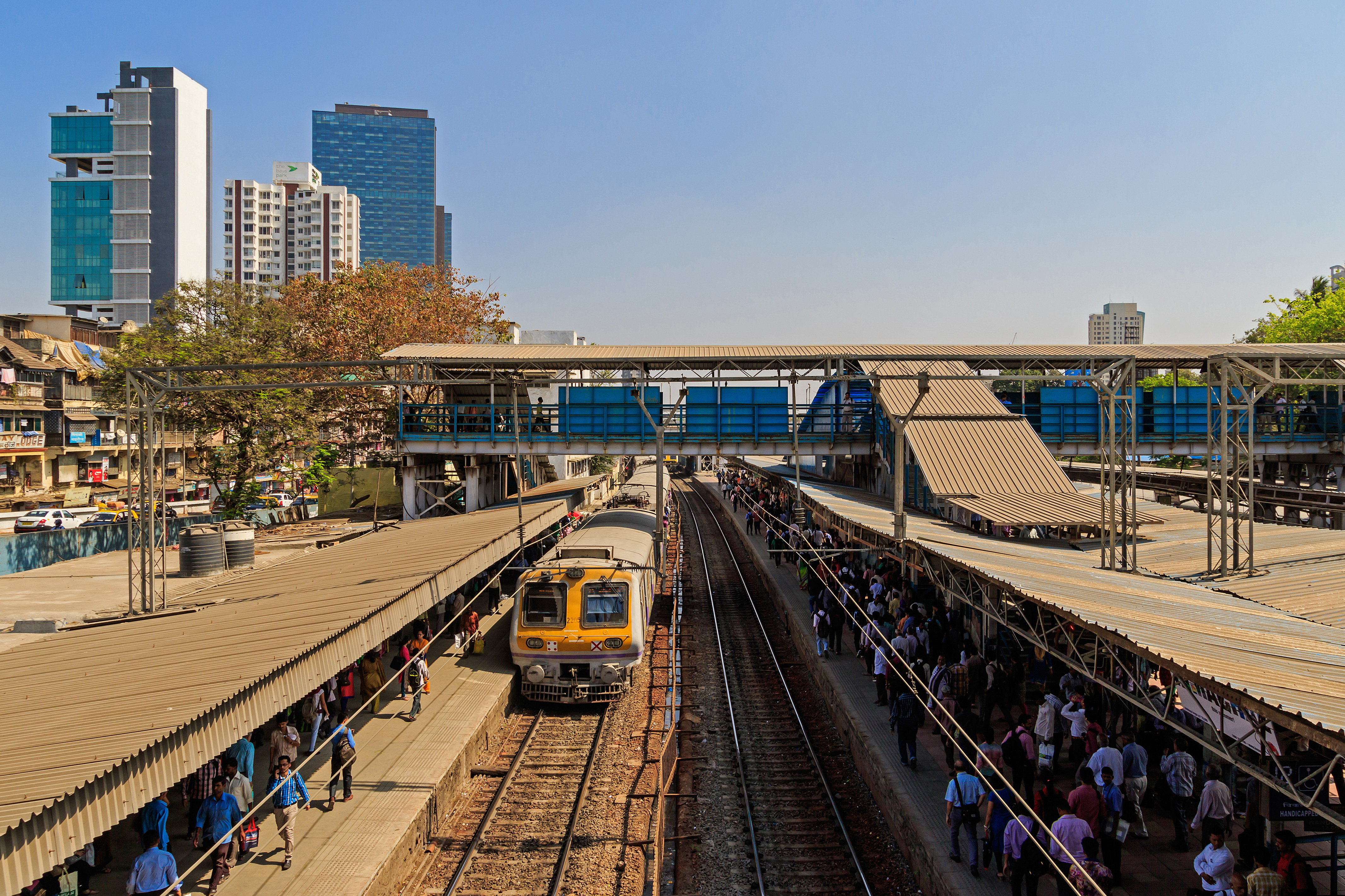 Dadar station of suburban railway in Mumbai, India